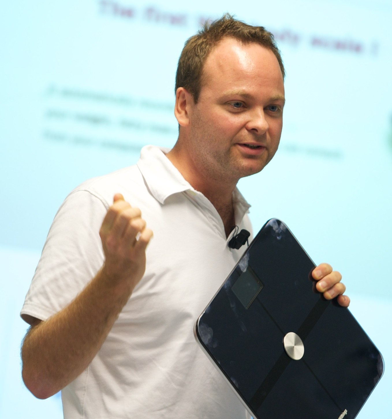 Withings founder Cedric Hutchings in 2010.